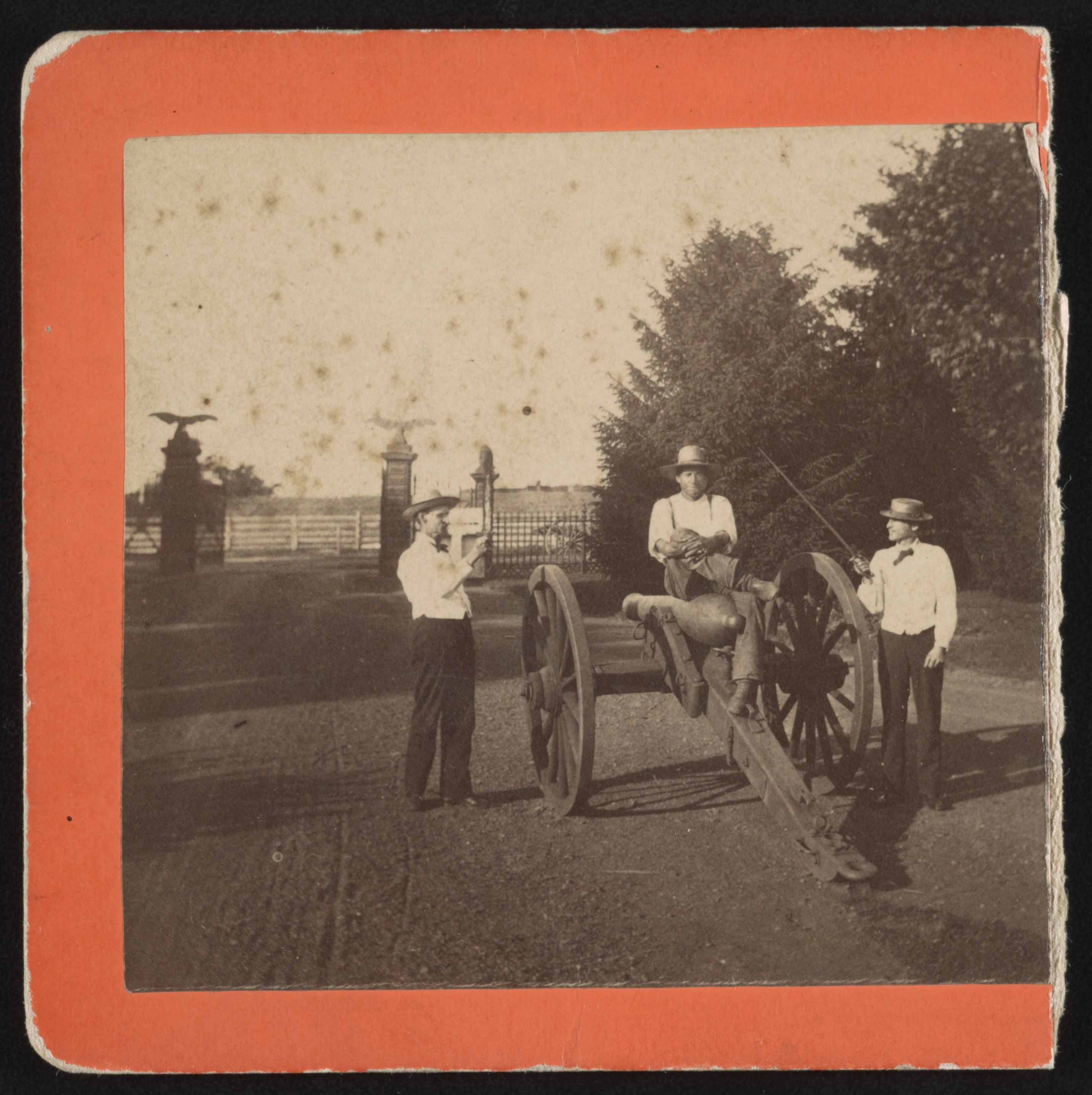 Title: Nicholas G. Wilson, National Cemetery superintendent, and others with Civil War cannon at Soldier's National Cemetery, Gettysburg, Pennsylvania Abstract/medium: 1 photograph : albumen print on card mount ; mount 9 x 9 cm (stereograph format, half)